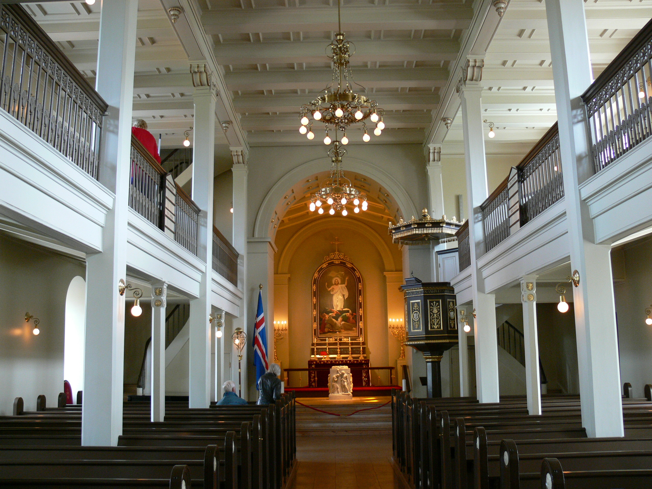 Reykjavík Cathedral. Interior.